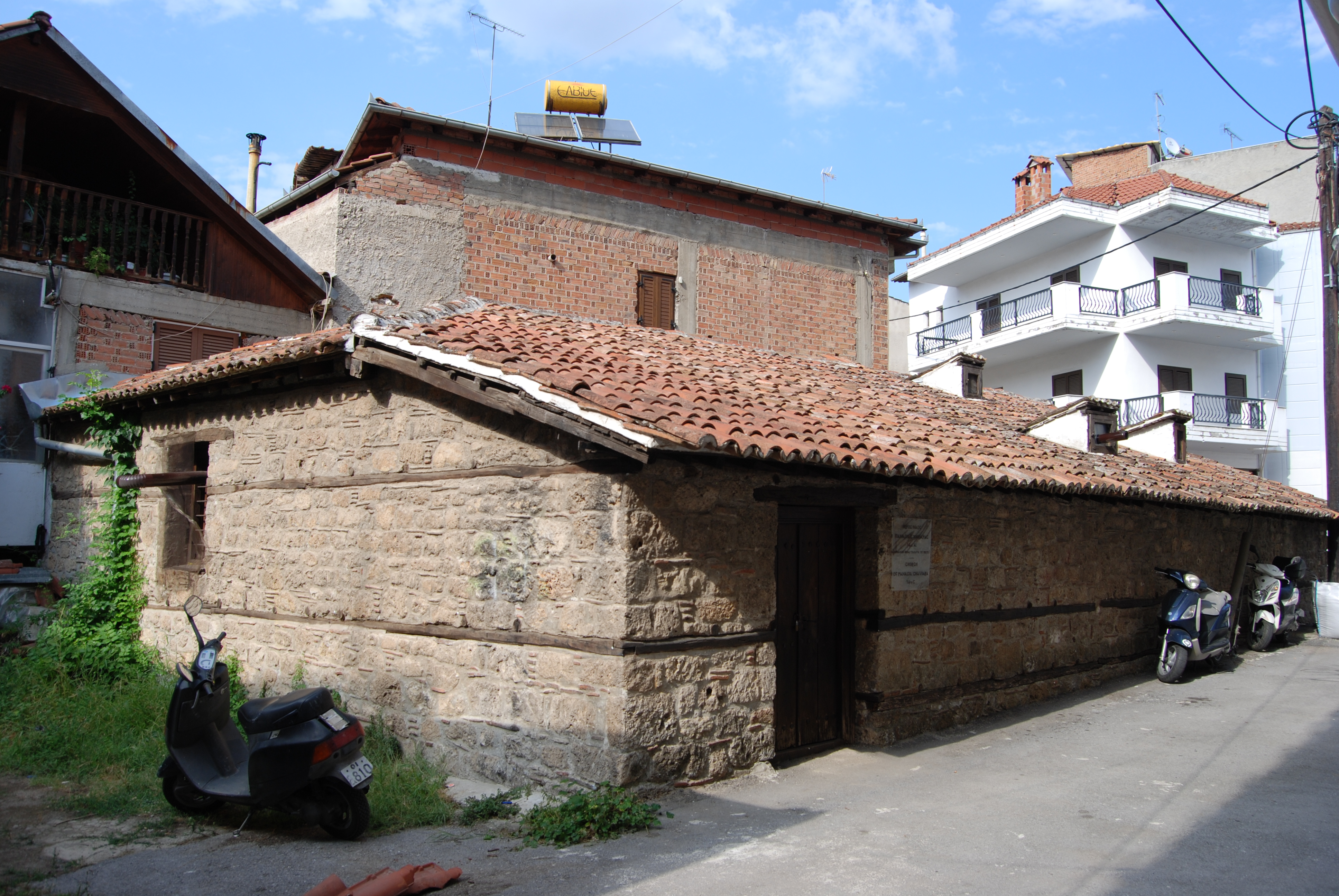 Panagia Chaviara, Ber